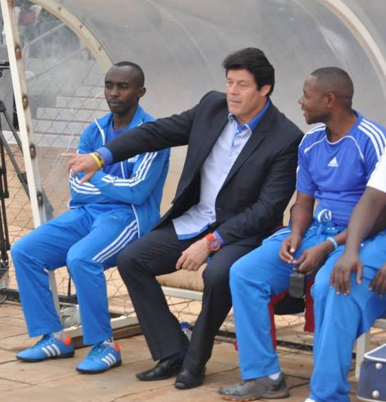 Luc Eymael with Rayon Sports Club during a match against APR club.; 23 March 2014 ; Stade Régional Nyamirambo, Kigali, Rwanda